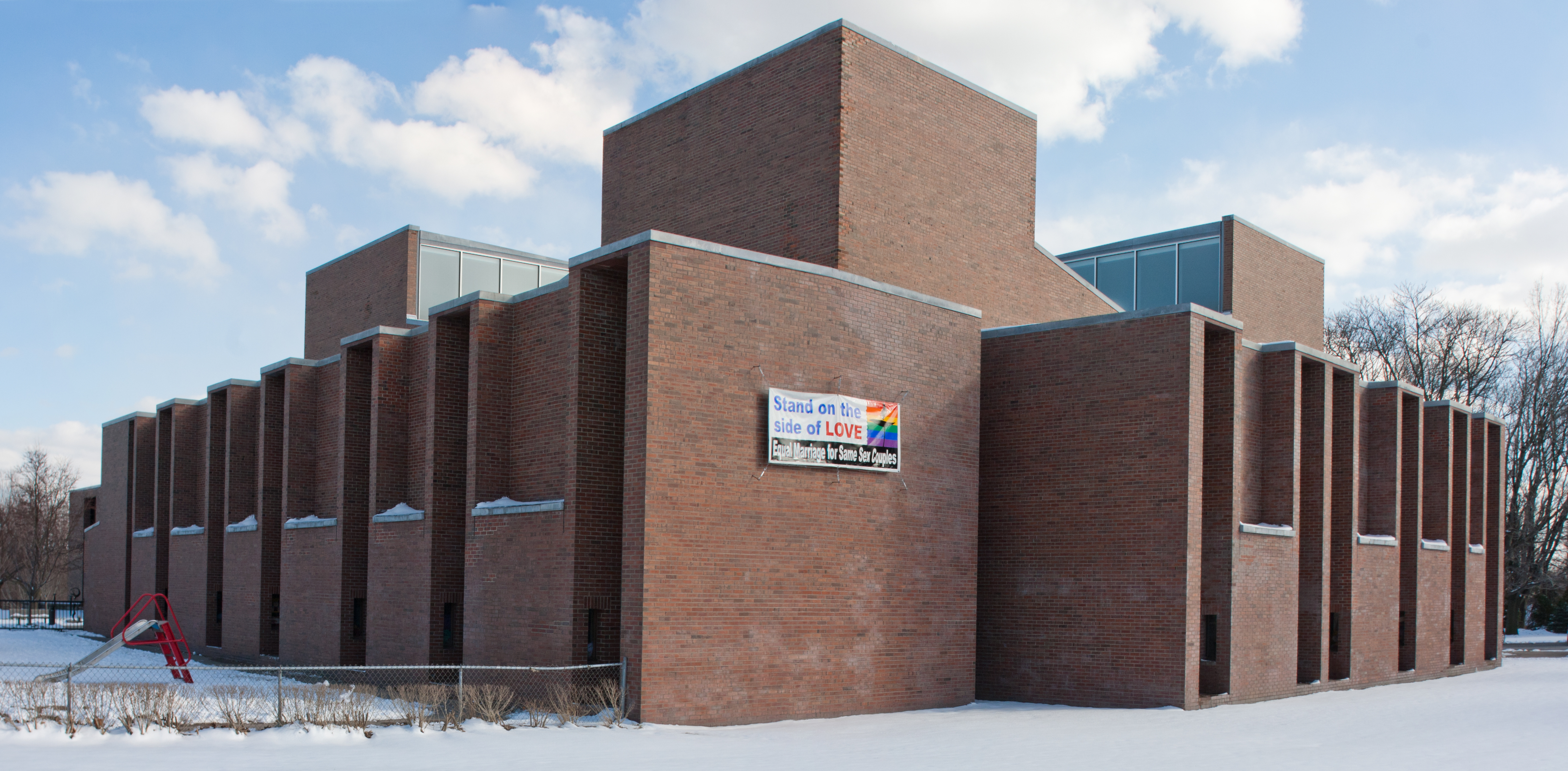 First Unitarian Church of Rochester NW Corner in snow